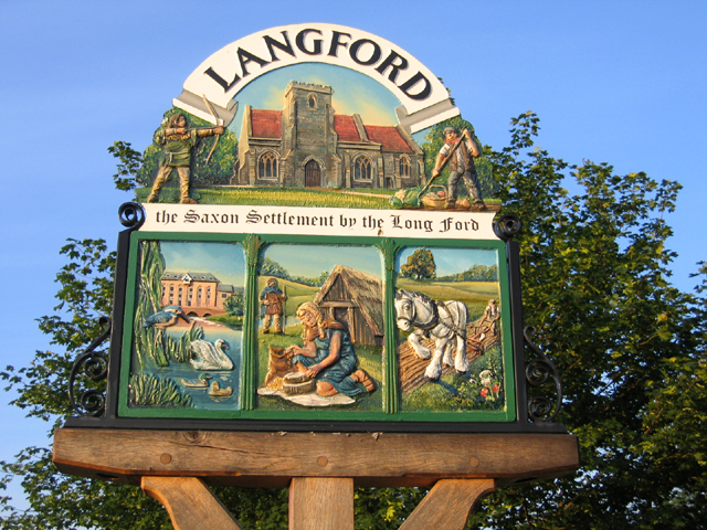 Village sign detail, Langford, Beds.